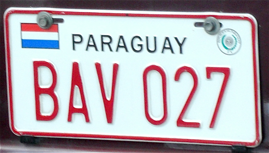 Paraguayan vehicle registration plate.